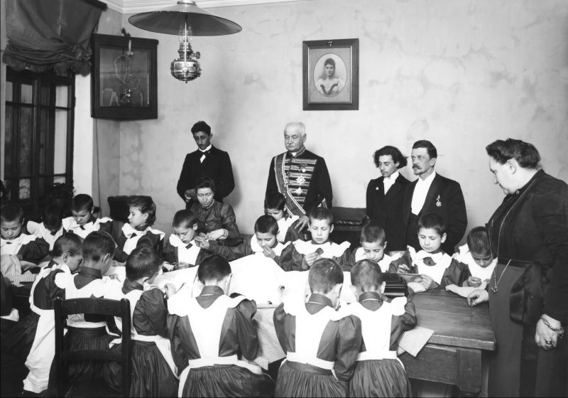 Orphanage of Diligence St. Olga. St. Petersburg, May 2, 1899 photo of Bulla Studio.